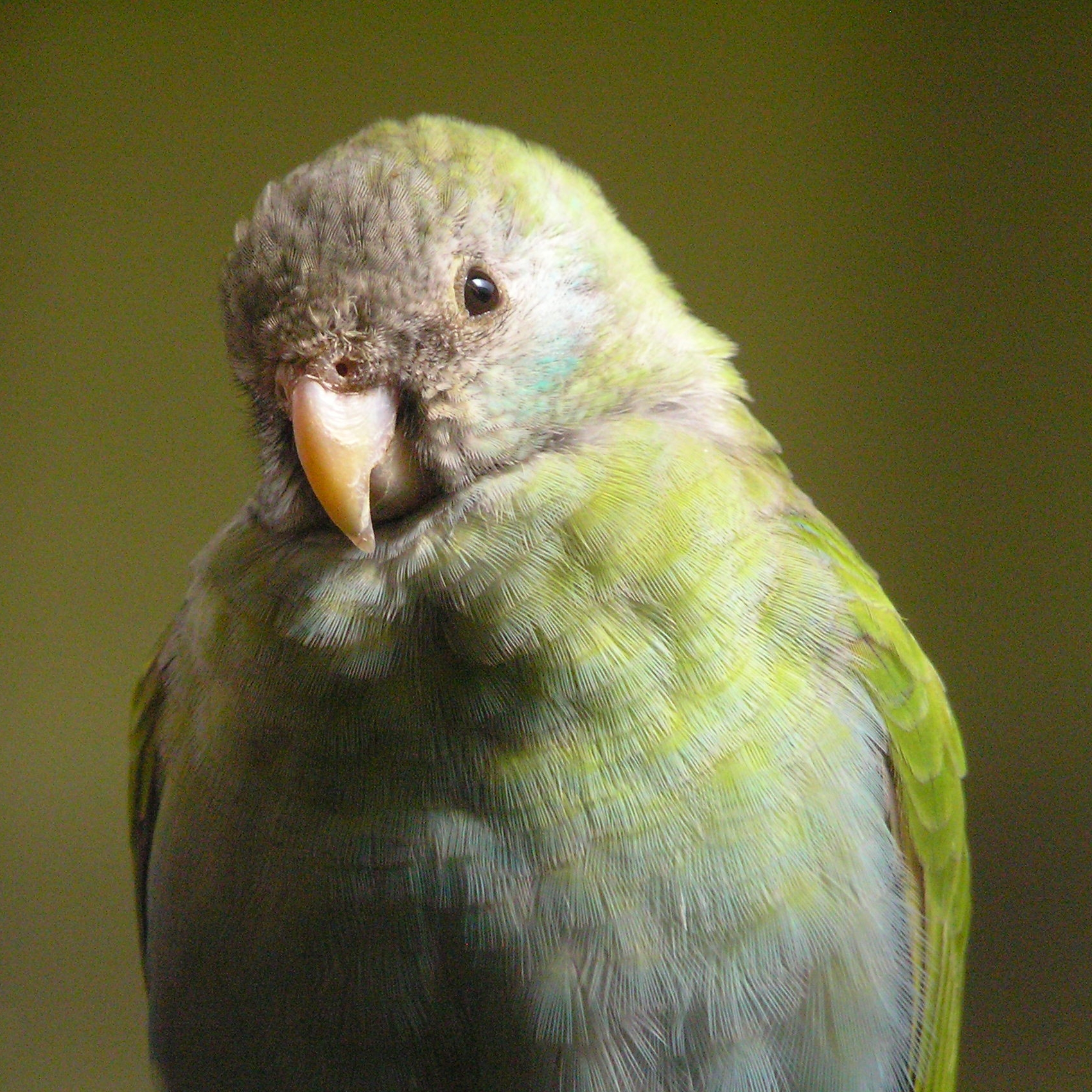 A female Hooded Parrot at Burger's Zoo En Safari, Arnhem, Netherlands.